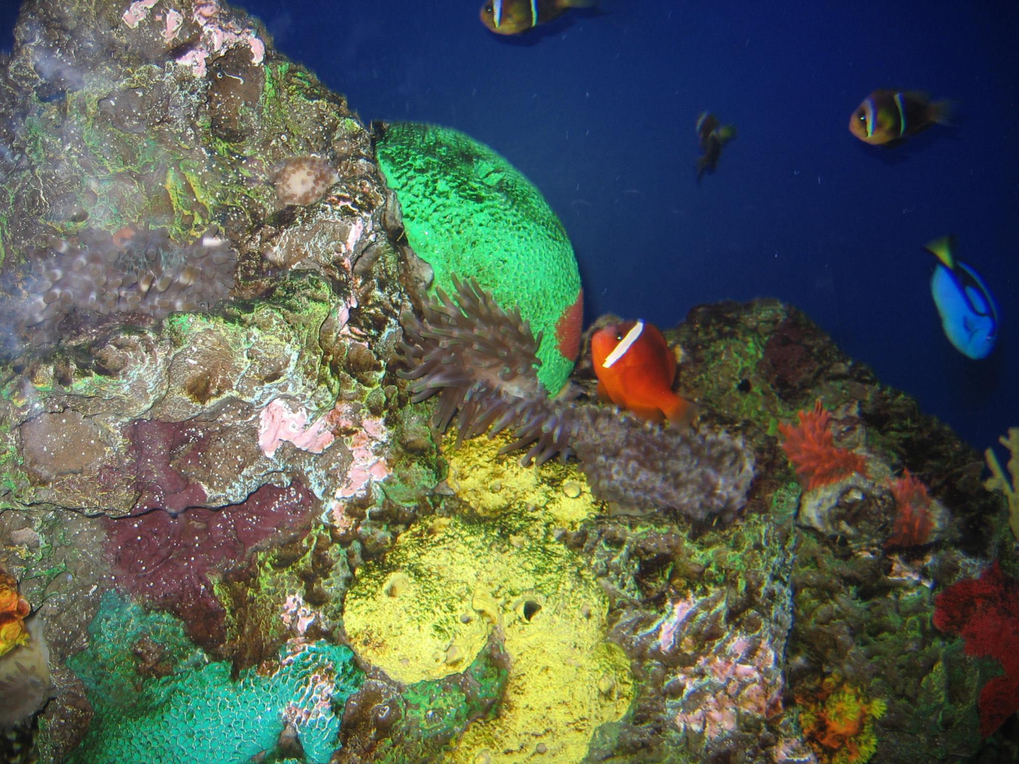 One of the smaller exhibits at the Aquarium of the Americas, New Orleans